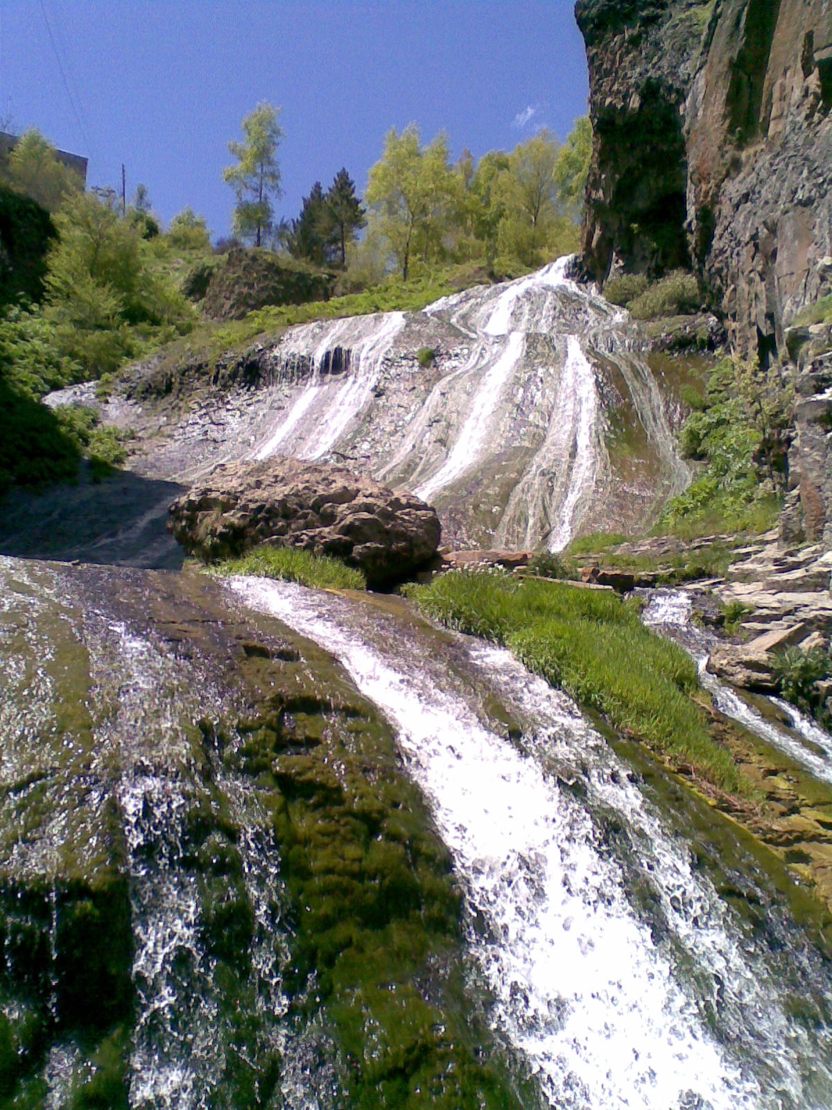 Jermuk